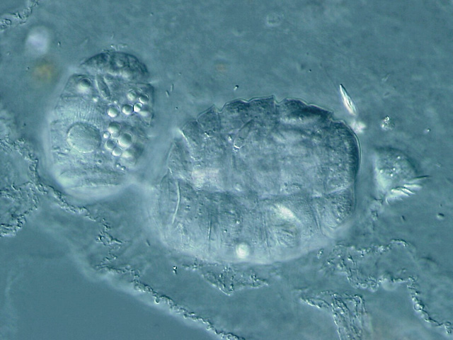 Polykrikos(Dinoflagellate) and Strombidium(Ciliate) / from Tokyo bay, Yokohama, Kanagawa Pref., Japan / Microscope:Leica DMRD (DIC)